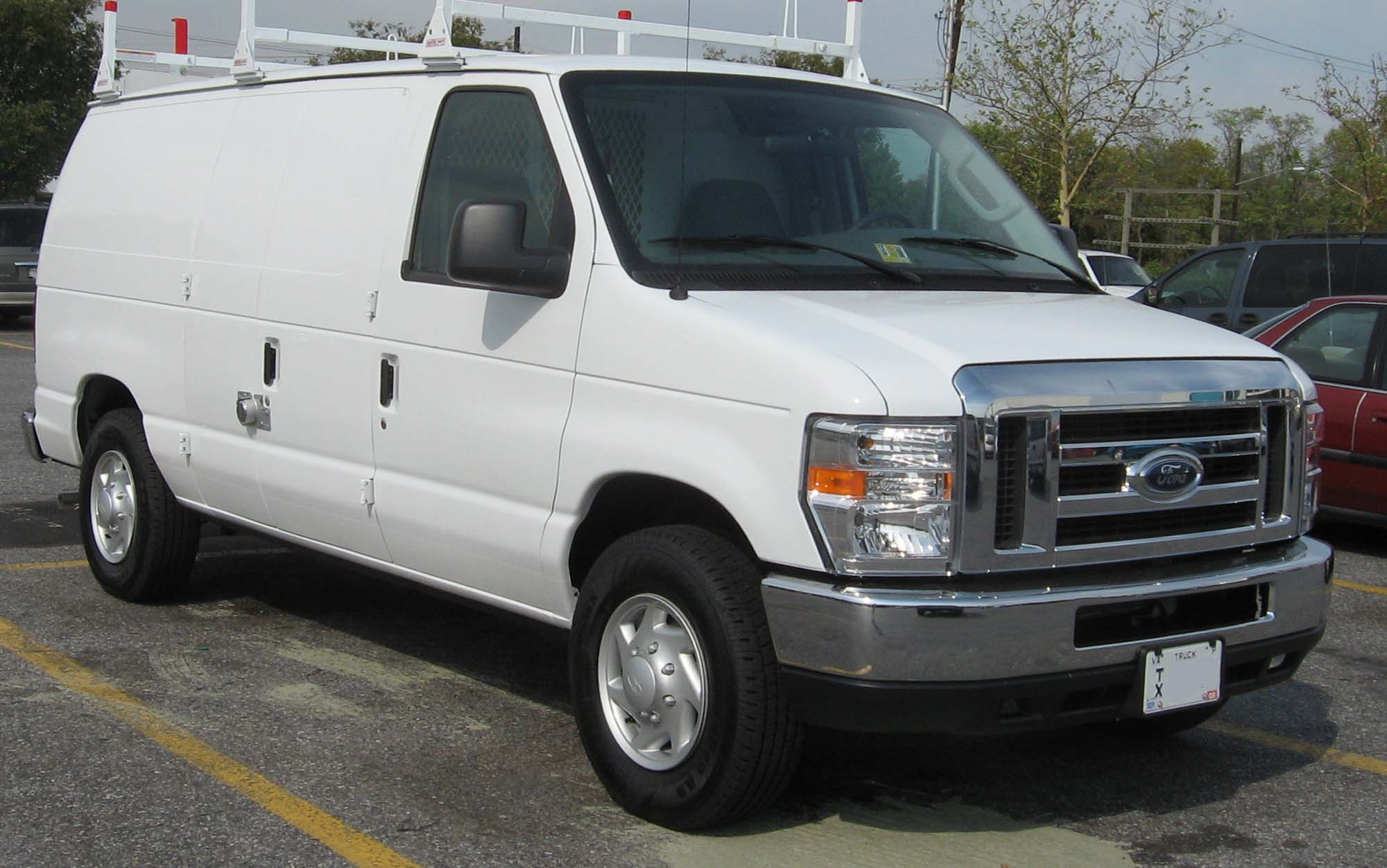 2008 Ford E-250 photographed in Greenbelt, Maryland, USA.